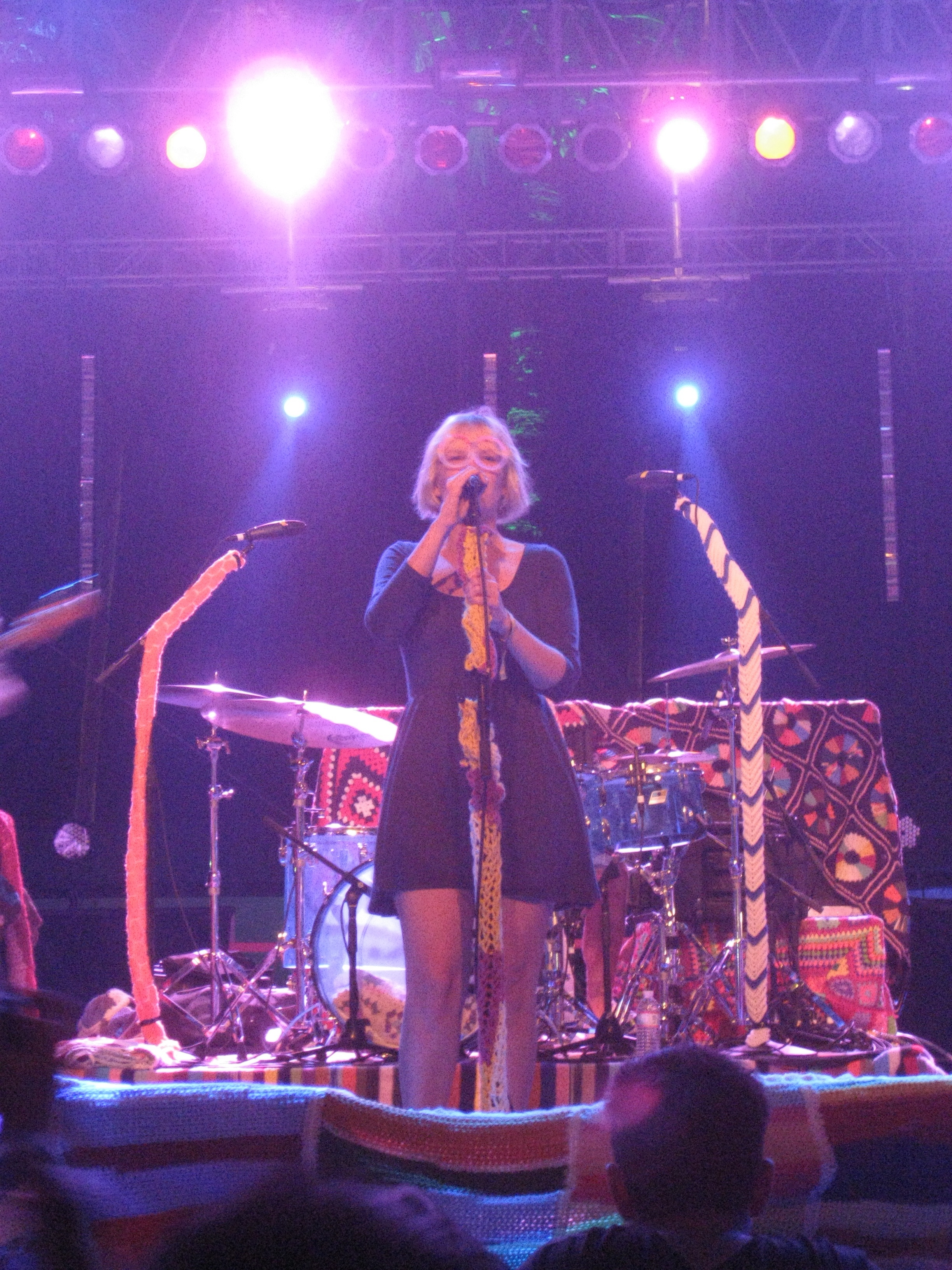 Sia performing on her 2010 We Meaning You Tour (in support of the album We Are Born)